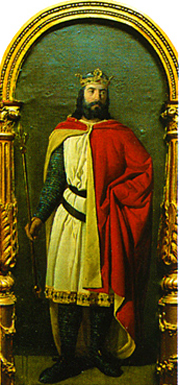 Garcia Sanchez II of Navarre